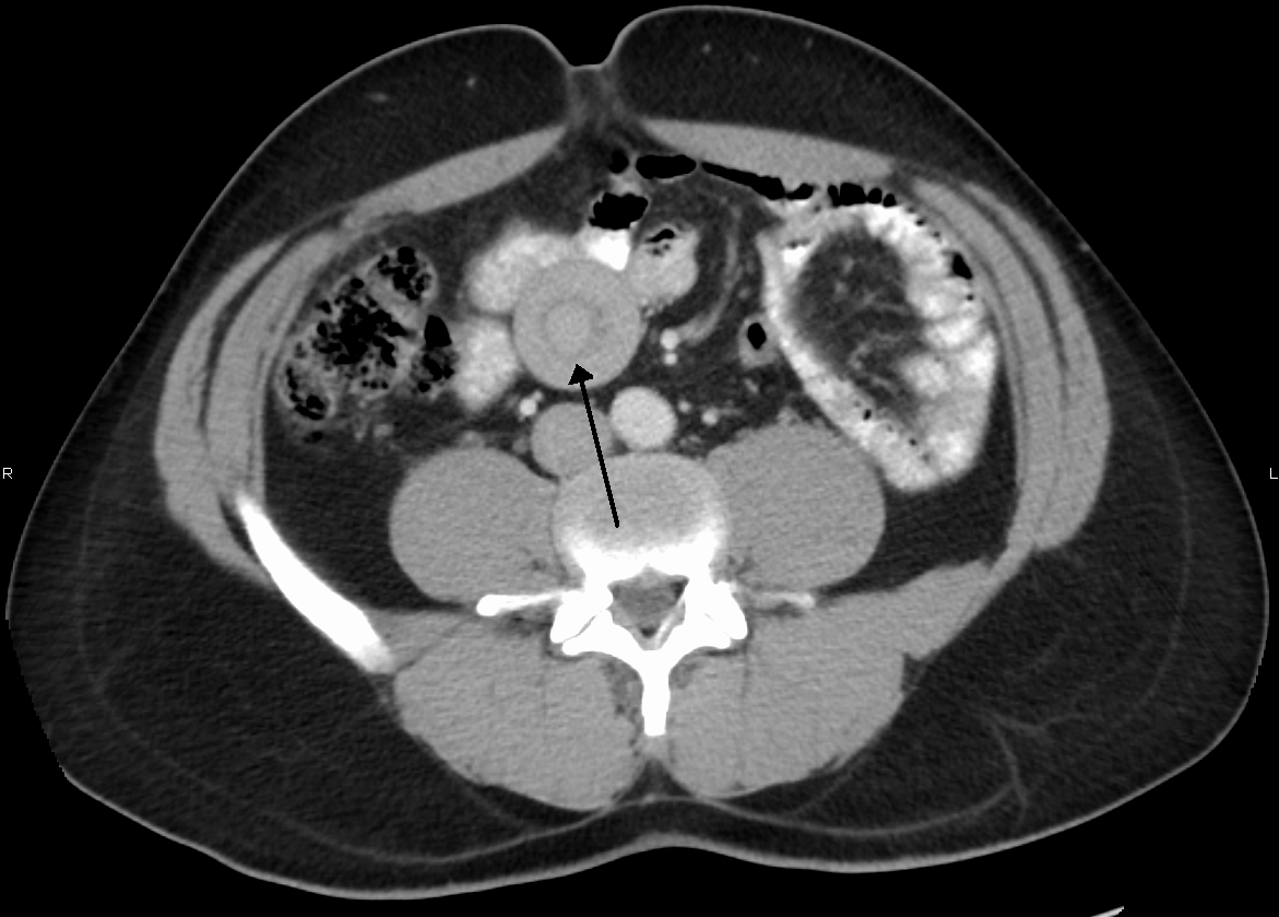 A intussuception as seen on CT